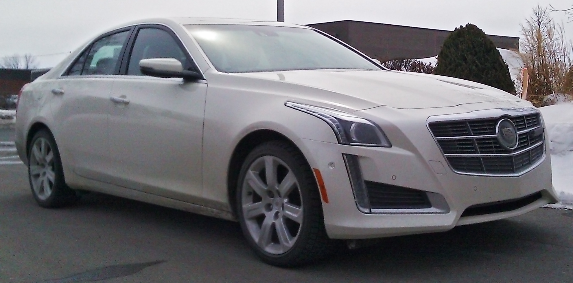 2014 Cadillac CTS photographed in Pointe-Claire, Quebec, Canada.